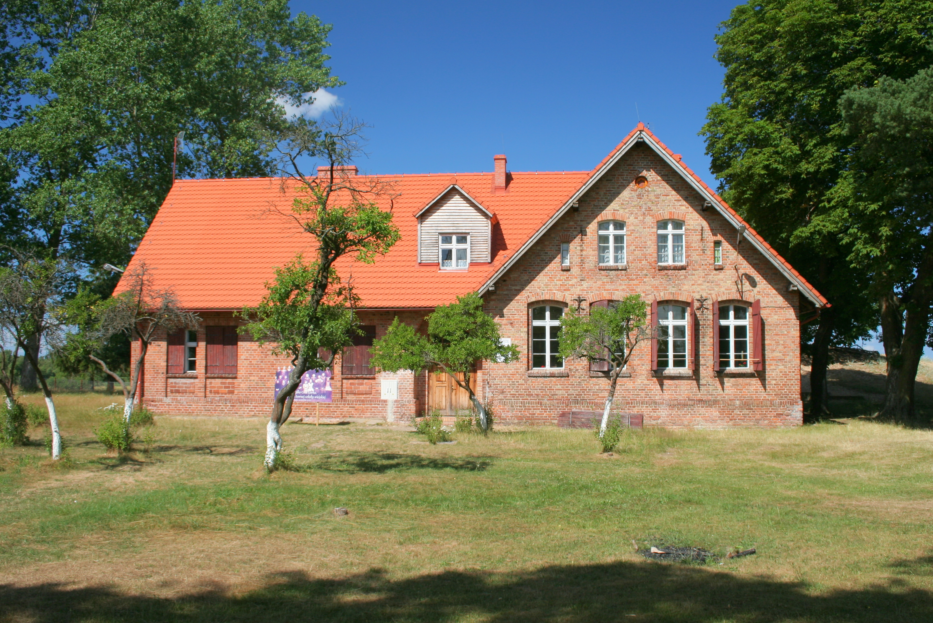 Building in Kluki.